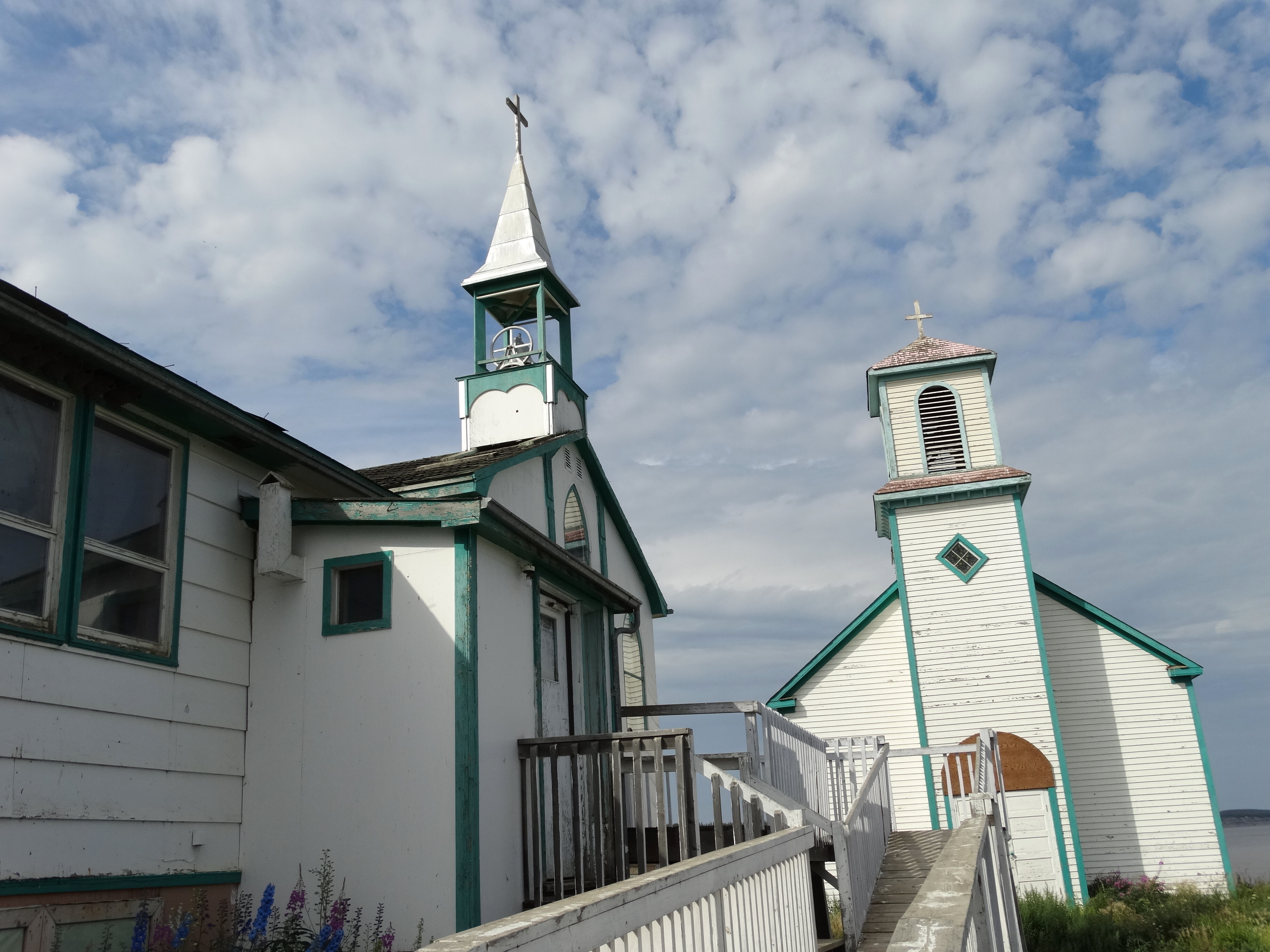 Anglican Church - Tsiigehtchic - Near Inuvik - Northwest Territories - Canada